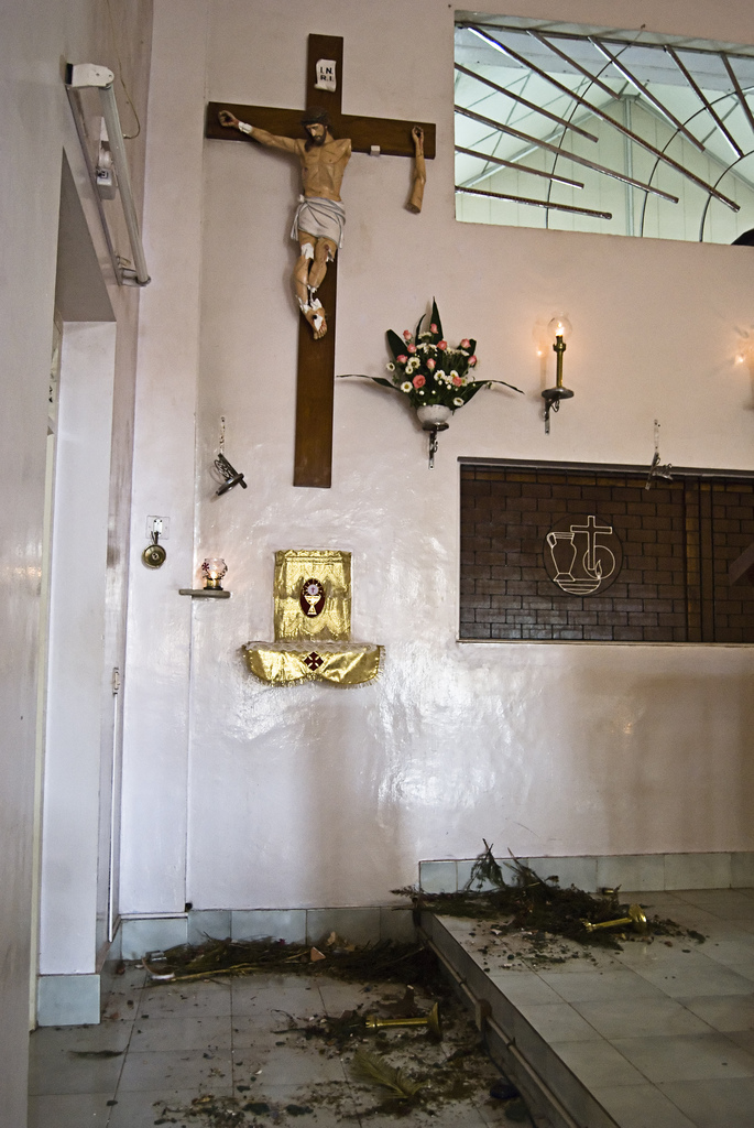 Destroyed property inside Adoration Monastery, Mangalore, after it was vandalized by activists from the Bajrang Dal.